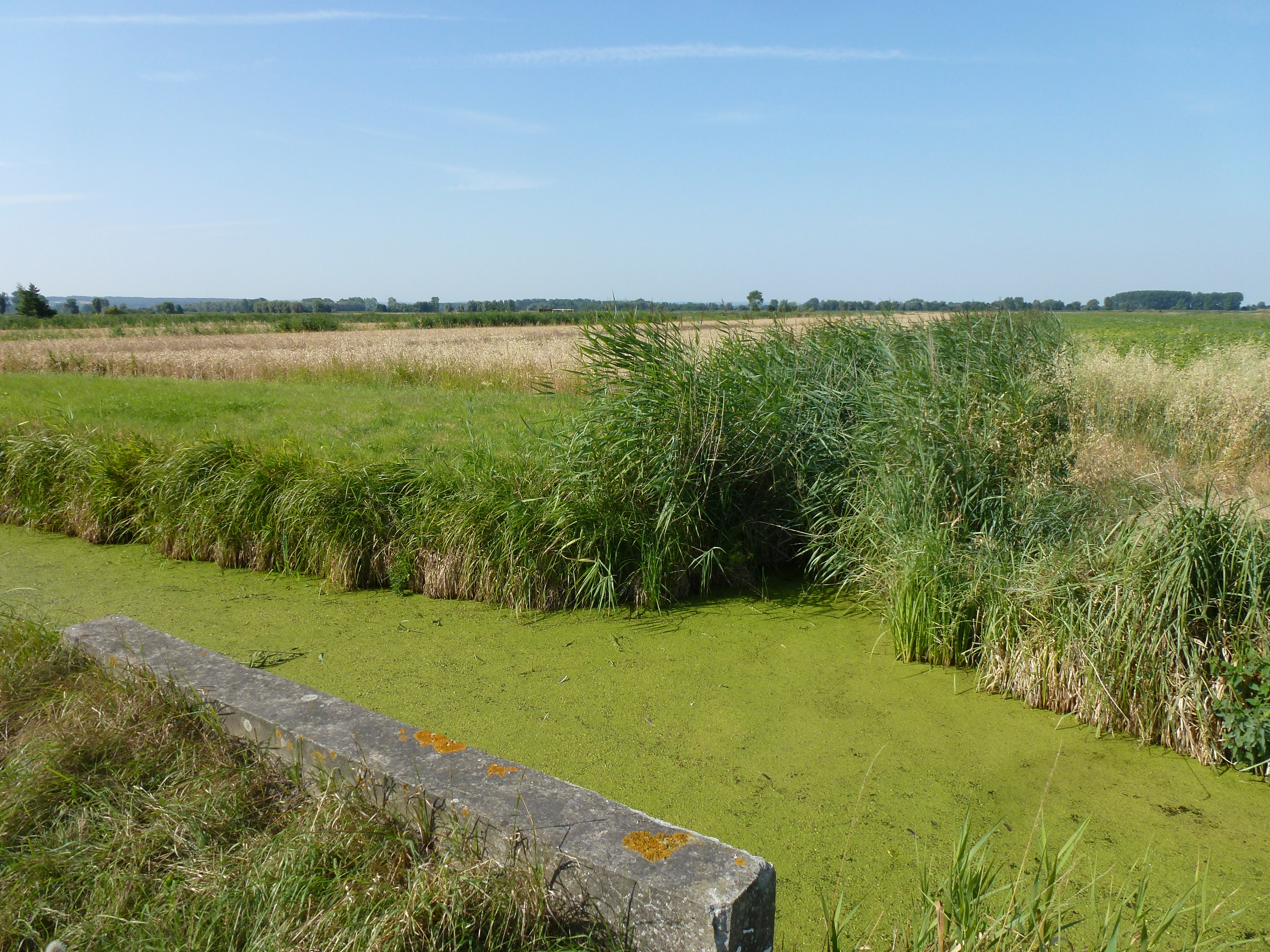 Sainte-Marie-Kerque (Pas-de-Calais) le marais